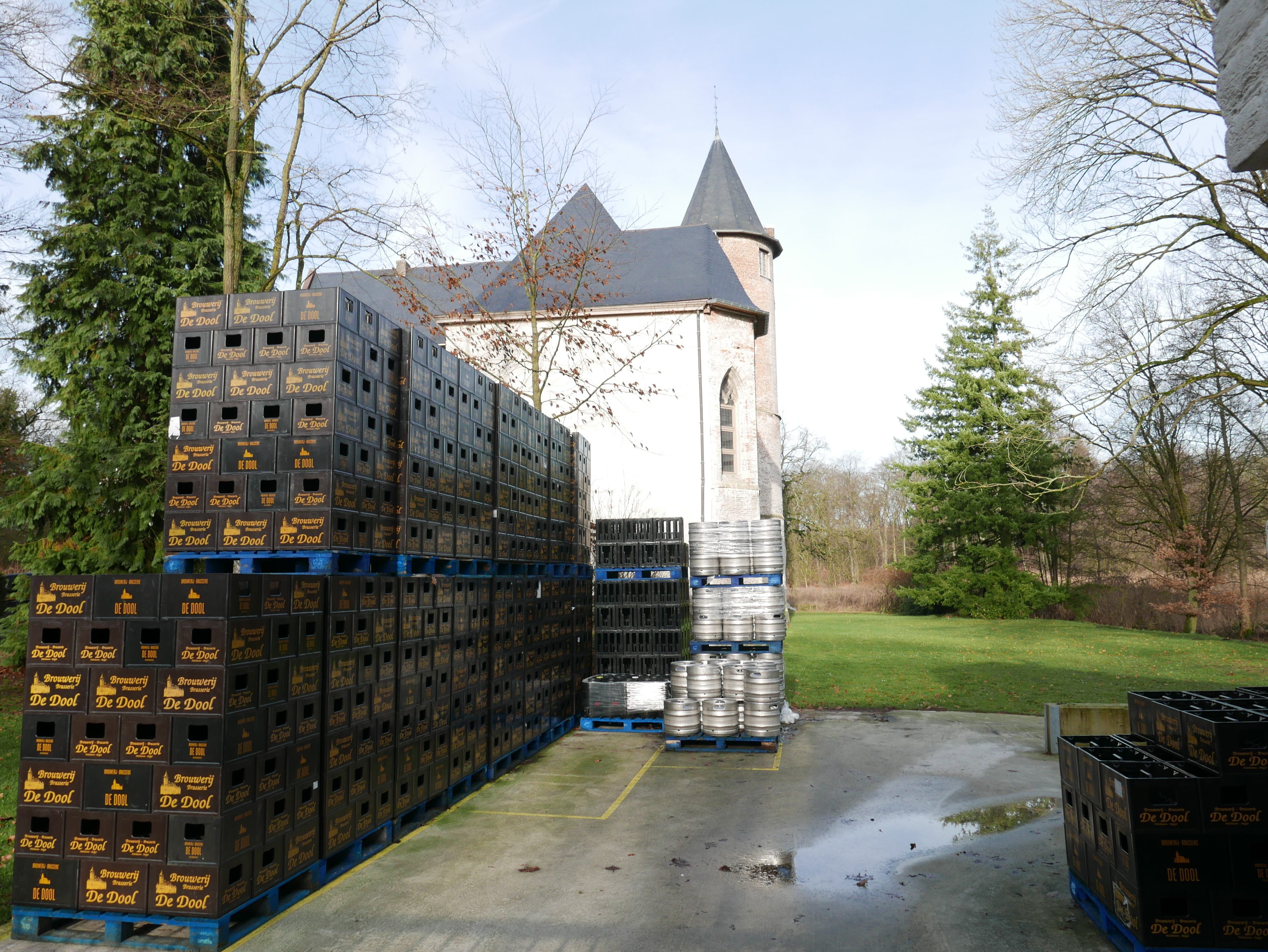 Browery Ter Dolen, Belgium